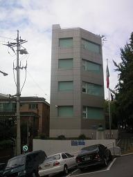 Embassy of the United Mexican States in Seoul